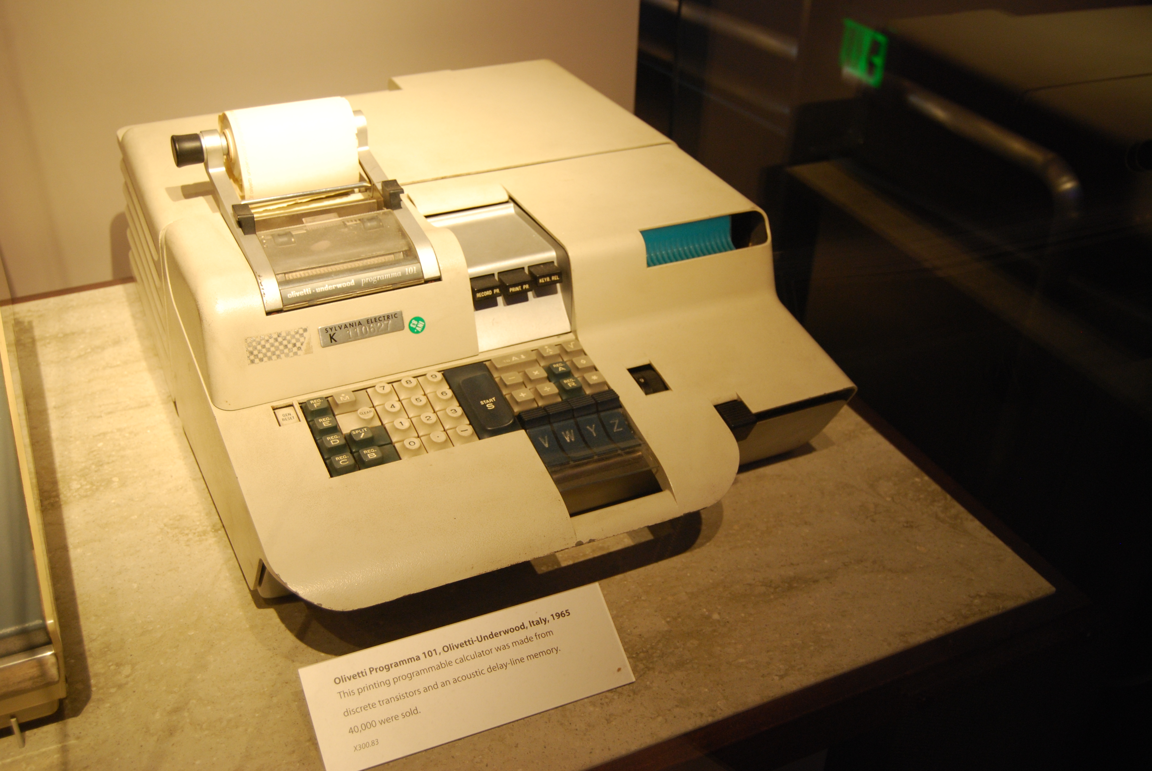 A Programma 101, first commercial desktop computer (1965-1971). It was produced by Italian manufacturer Olivetti and, in order to get it branded Made in USA and sell it to the Federal offices, also by Olivetti's U.S.-based brand Underwood. The device was sold at the price of US$ 3 200 and complessively were sold more than 40 000 units, 90 per cent of which on the North-American market. The pictured device is permanently exposed at the Computer History Museum, Mountain View, California, USA